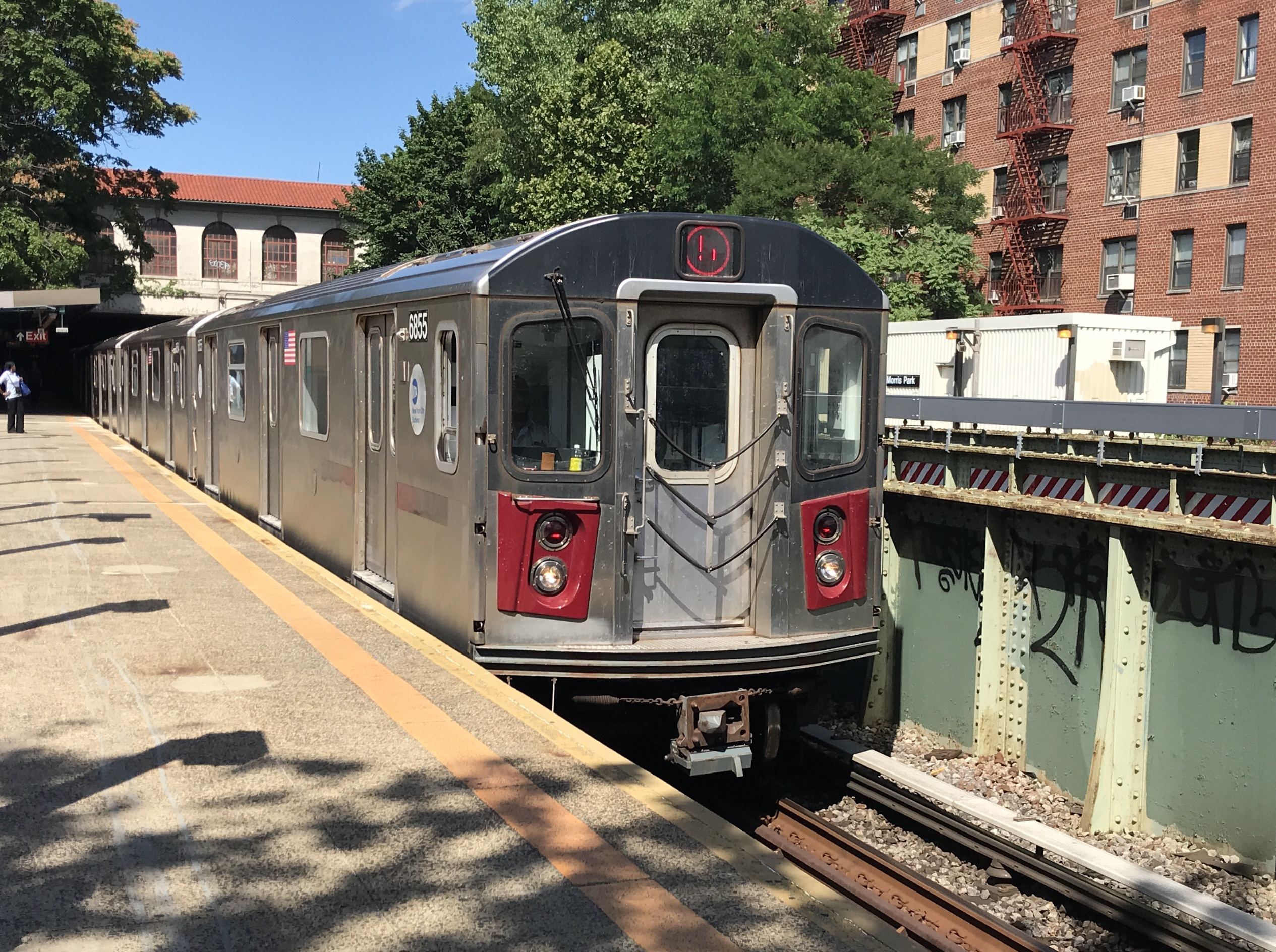 This image shows a 5 train bound for Manhattan approaching the Morris Park station in the Bronx.